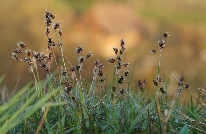 Luzula campestris (Juncaceae) (Field Woodrush), Ortenaukreis (Landkreis), BRD